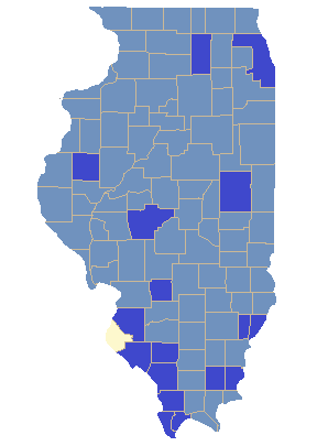 A map showing the results of the 1976 Illinois Democratic Gubernatorial primary by county.